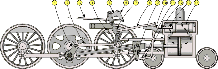 labelled diagram of Walschaert valve gear for inside admission piston valves Eccentric Crank (Return Crank) Eccentric Rod Reach Rod Lifting Link Lifting Arm Reverse Arm & Shaft Link (Expansion Link) Radius Bar Crosshead Arm (Drop Link) Valve Stem Guide Union Link (Anchor Link) Combination Lever Valve Stem Valve Spindle